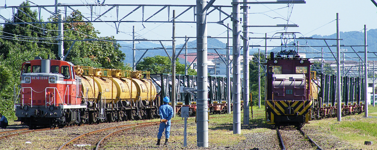 JRF type DE10 & Mitsui Chemicals' No.18 at Kariyagawa yard.